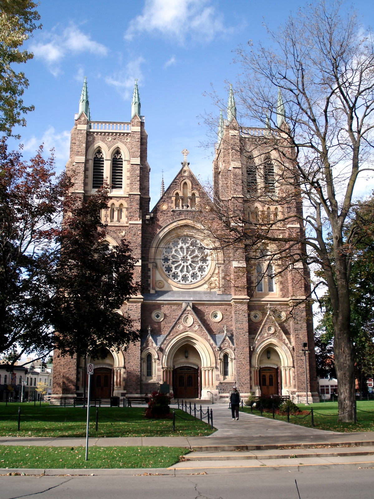 St. Peter's Basilica in London, Ontario. Photo taken on October 14, 2006.